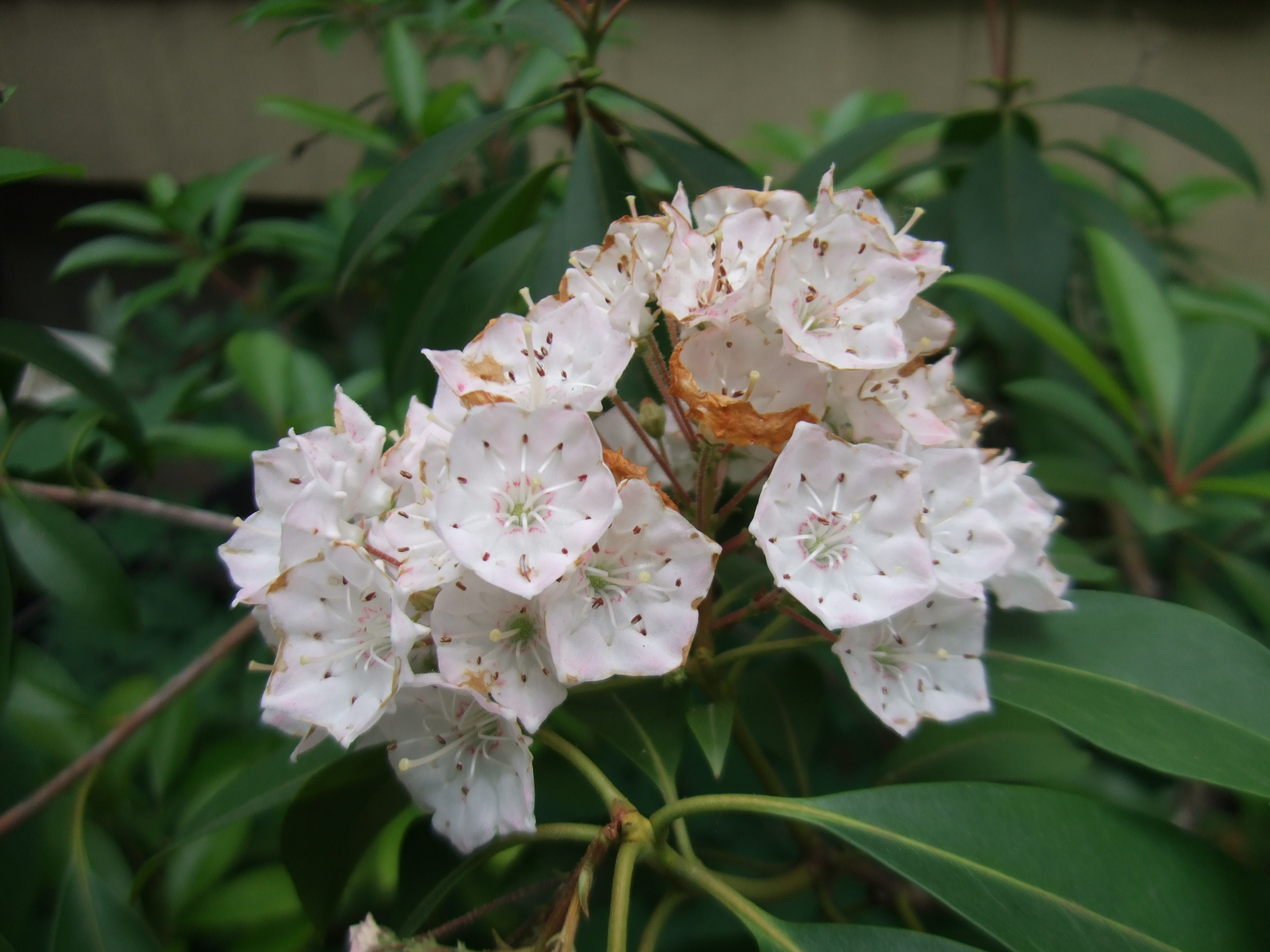 Kalmia latifolia flower close-up